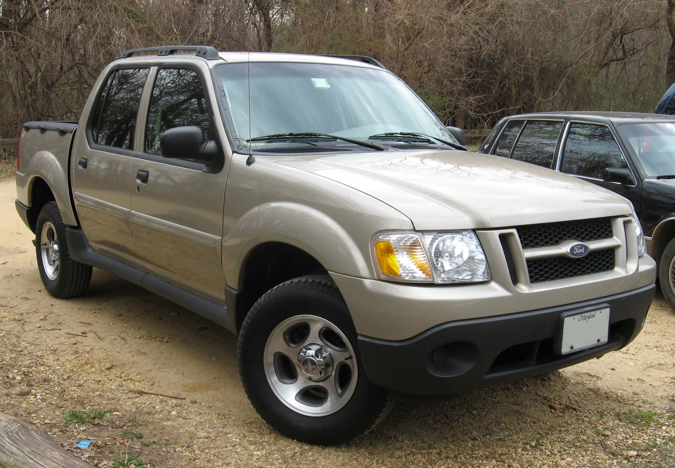 2001-2005 Ford Sport Trac photographed in USA.